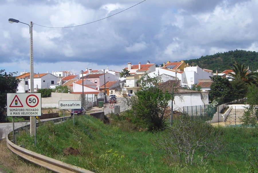 Village of Bensafrim, Lagos, Portugal